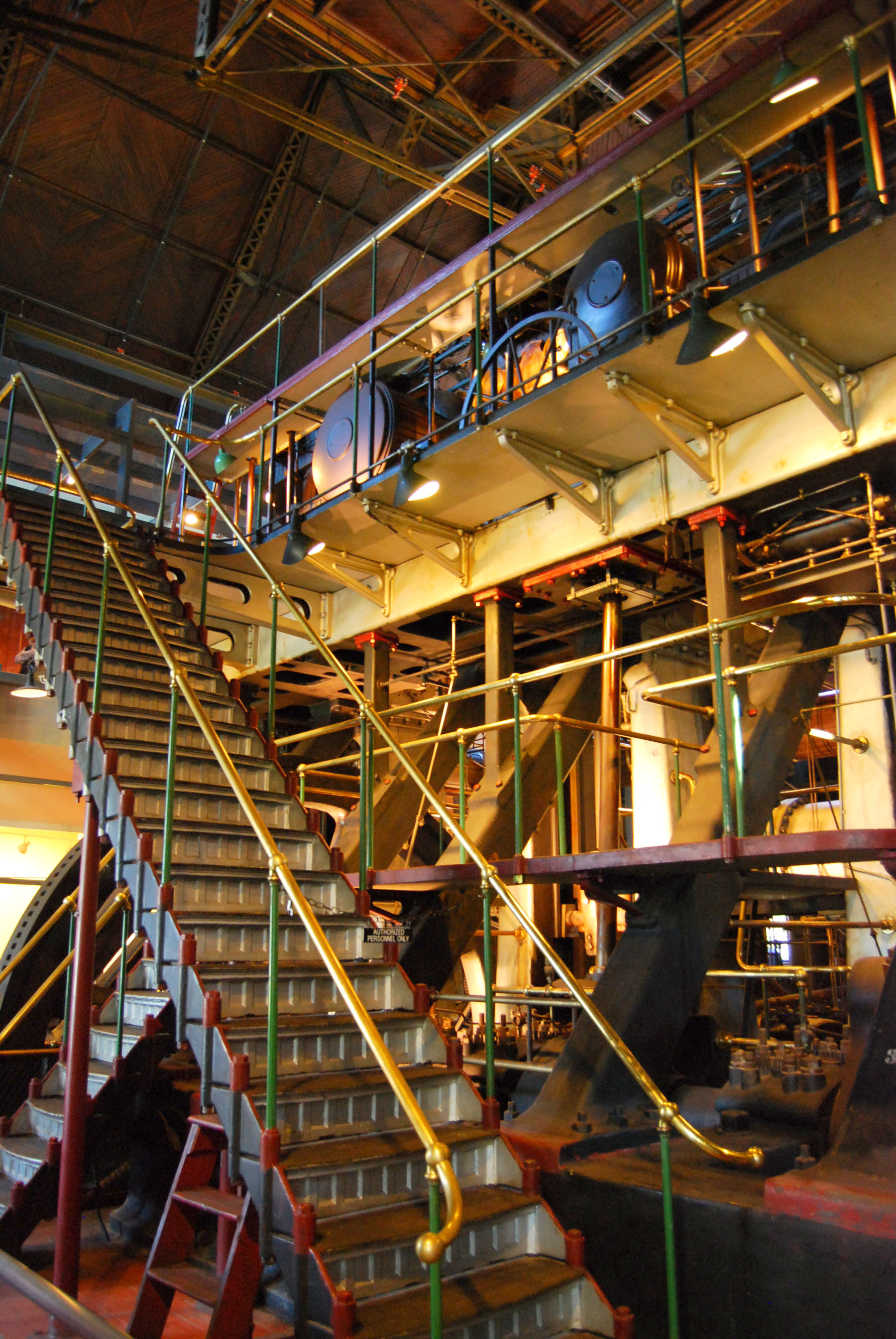 Leavitt-Riedler Pumping Engine, Metropolitan Waterworks Museum, Boston, Massachusetts. An ASME Landmark.